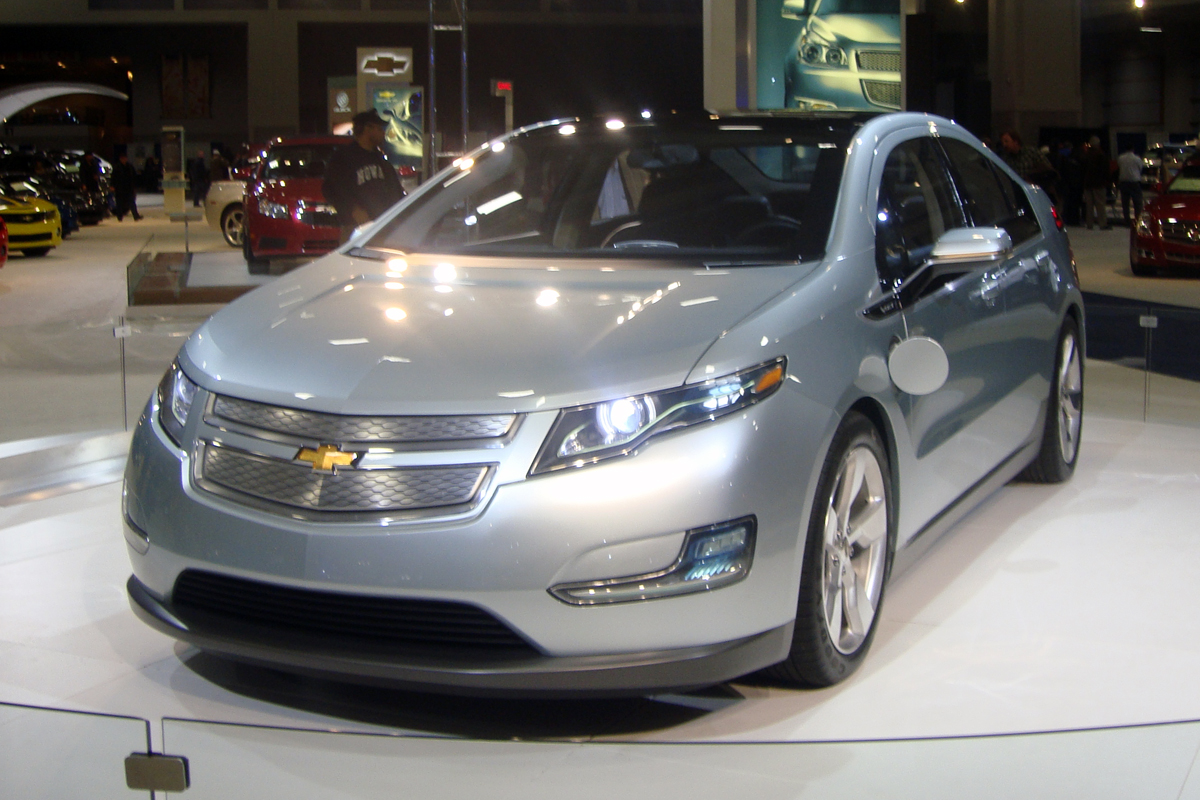 2011 Chevrolet Volt exhibited at the 2010 Washington Auto Show. The Chevy Volt is a plug-in hybrid (PHEV).